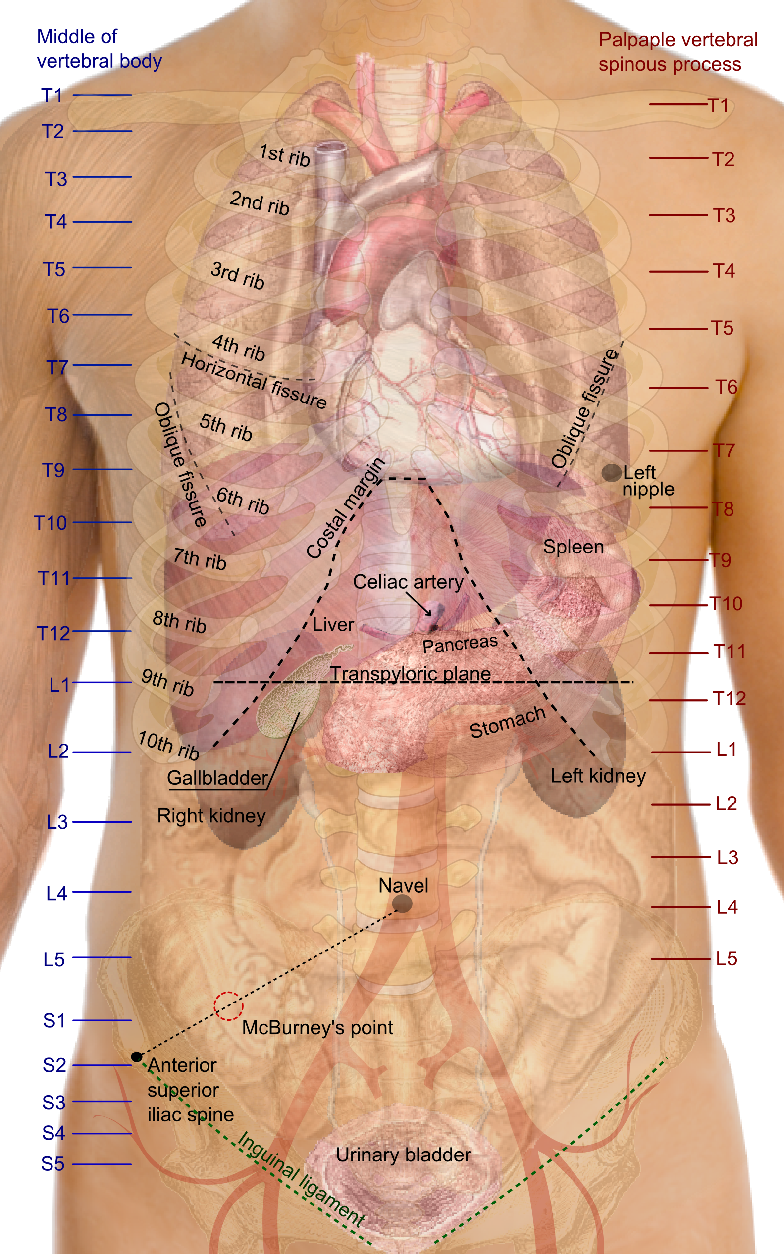 Surface projections of the major organs of the trunk, using the vertebral column and rib cage as main reference points of superficial anatomy. The transpyloric plane and McBurney's point are among the marked locations. To discuss image, please see Talk:Human body diagrams